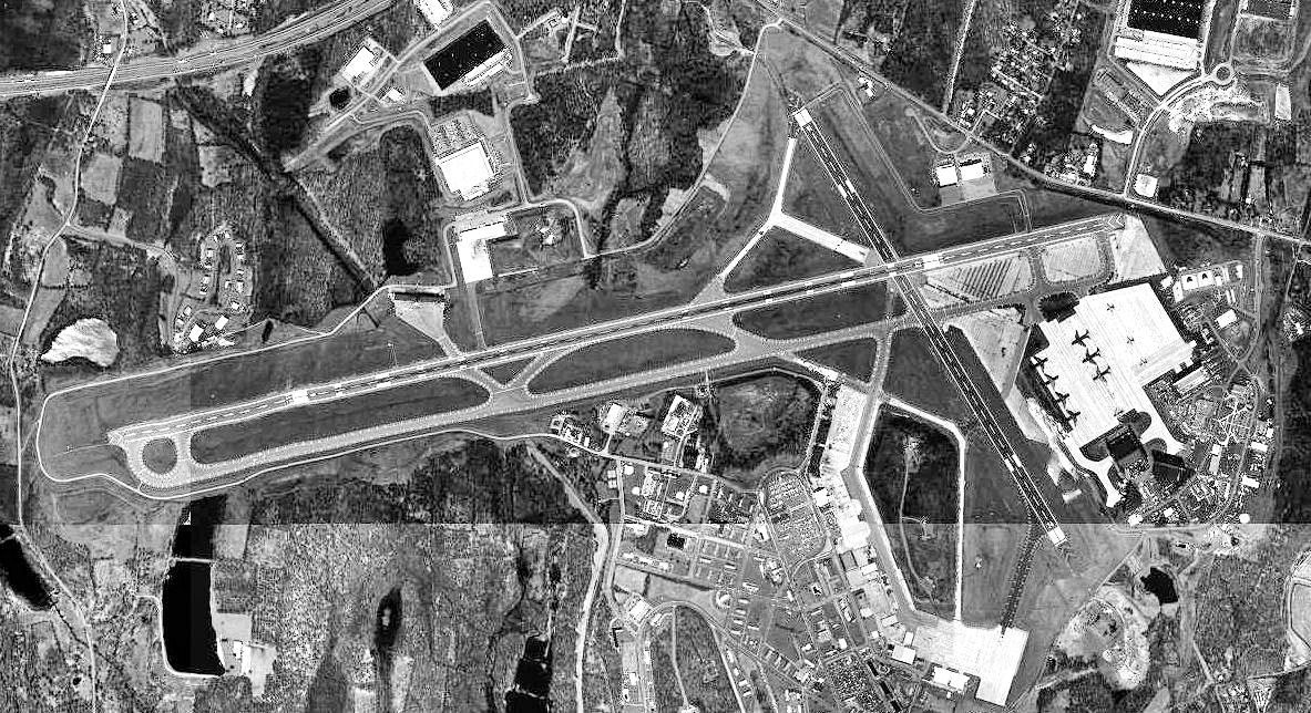 USGS orthophoto of Stewart Air National Guard Base, New York